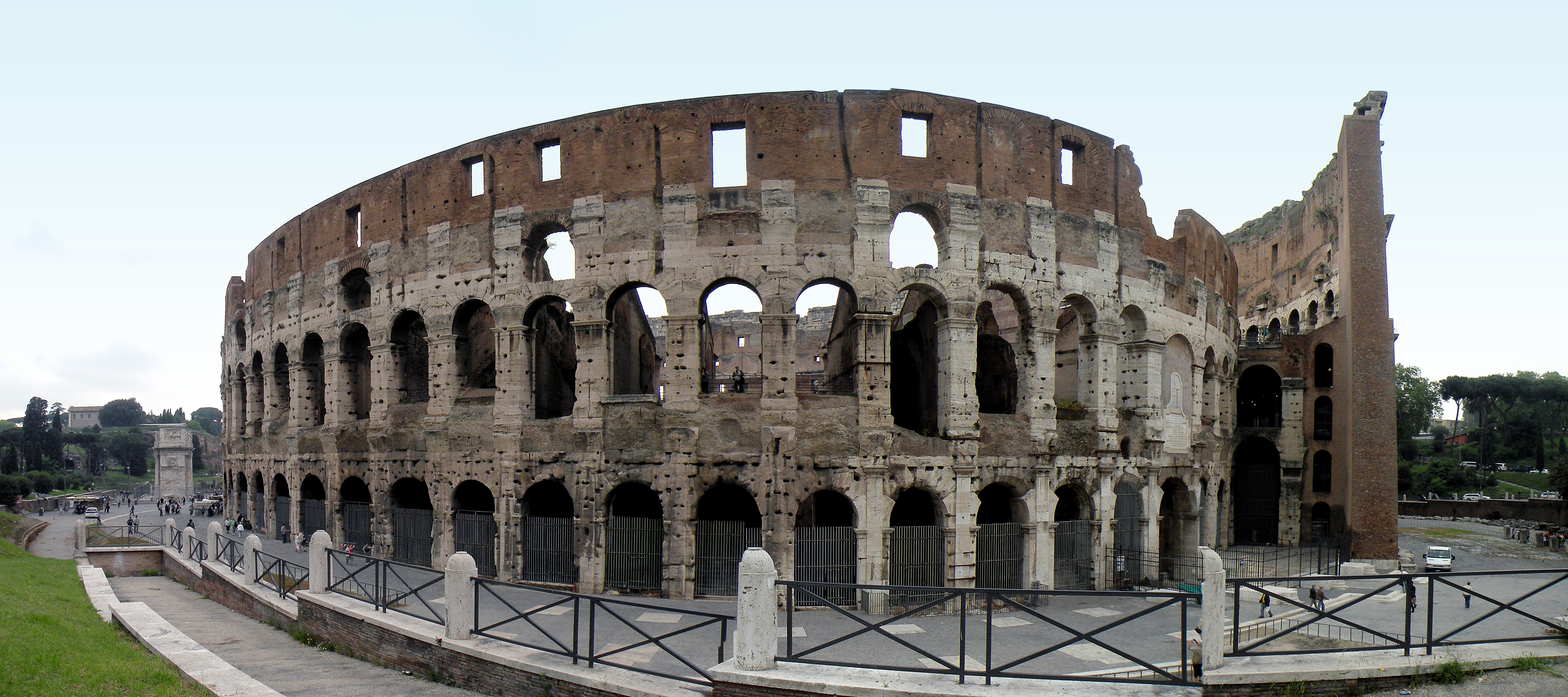 Colosseum. View from SSW